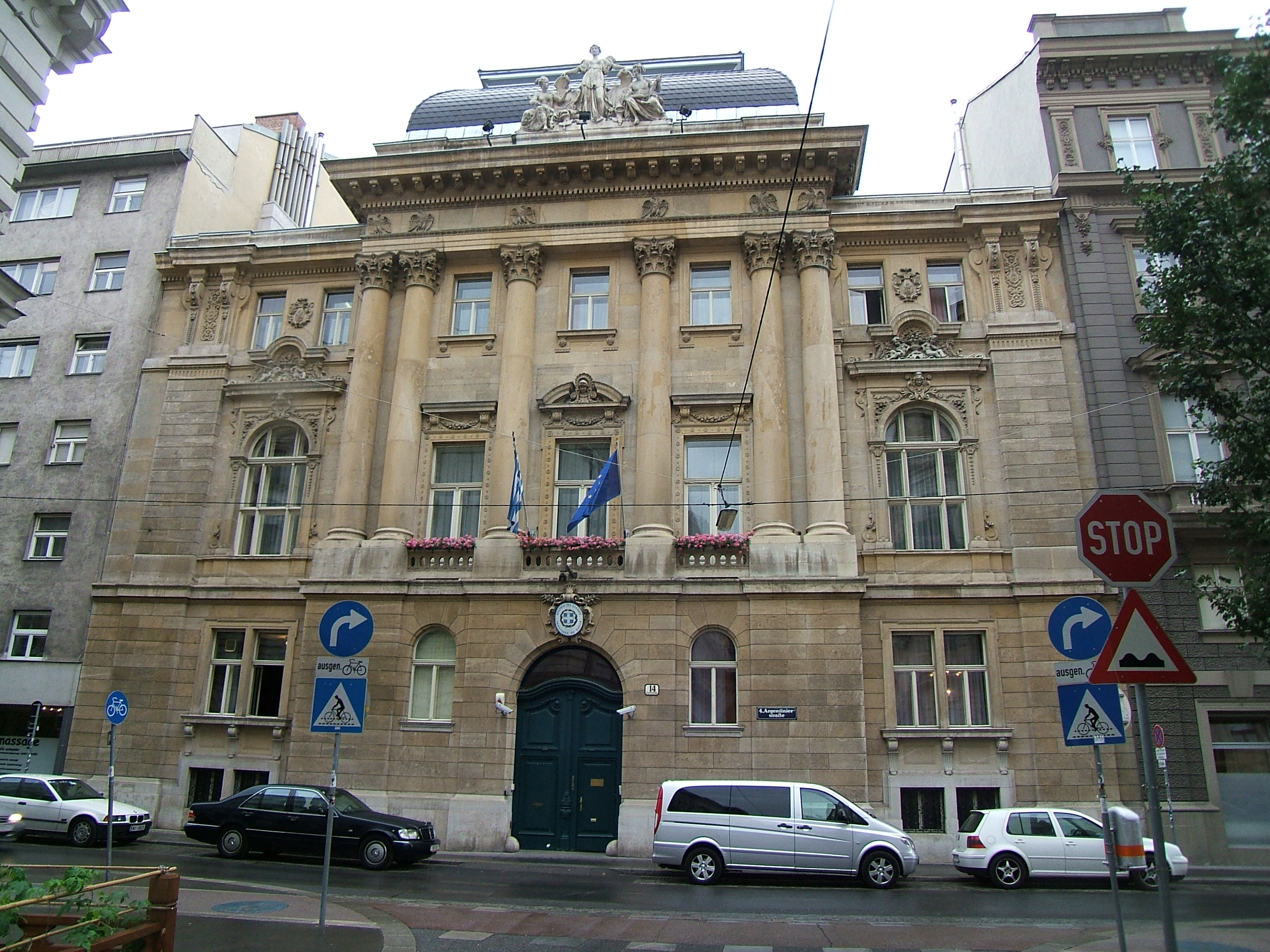 Palais Vrints zu Falkenstein in Vienna 4th district Argentinierstraße 14, Embassy of Greece